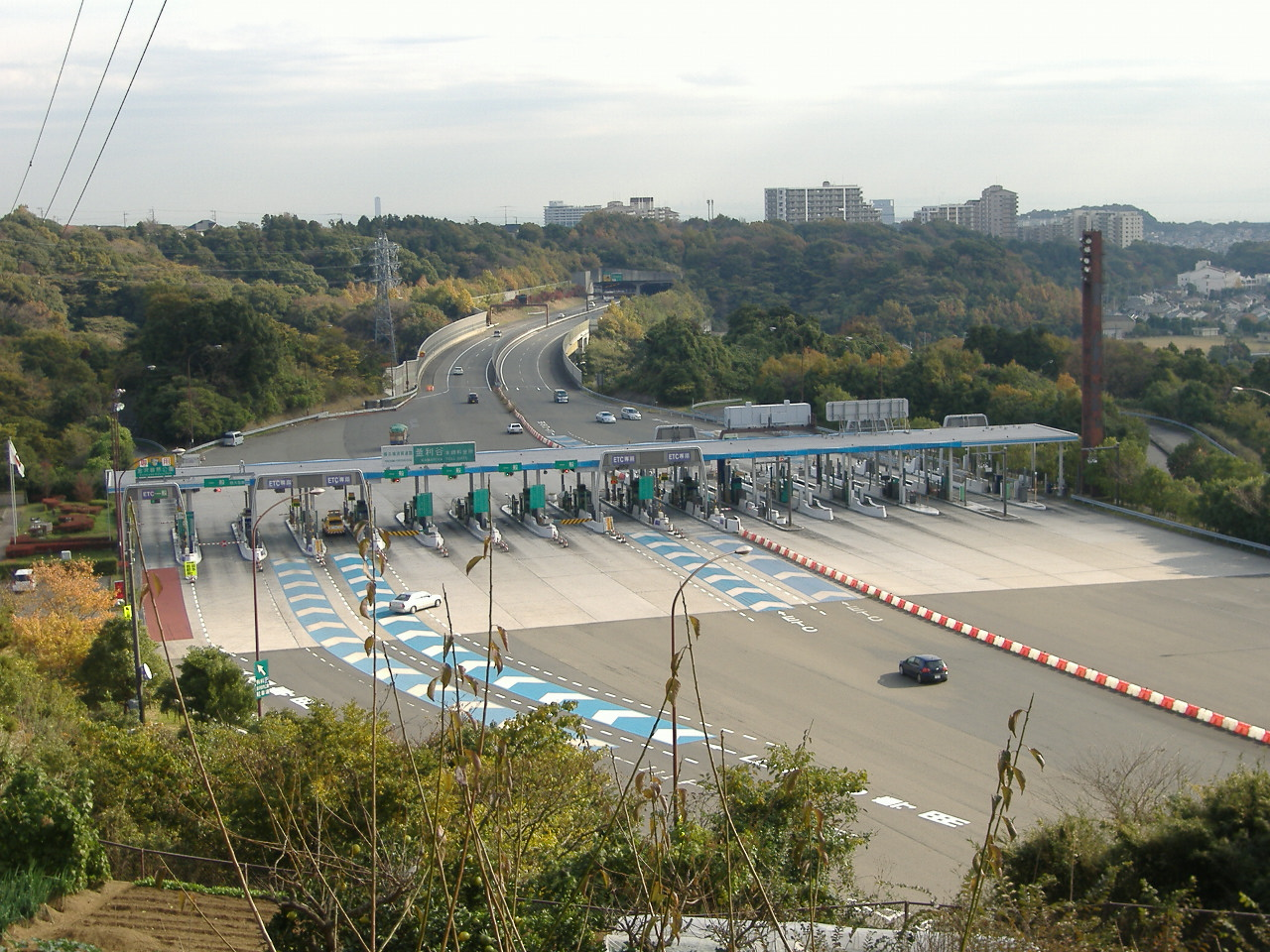 Yokohama Yokosuka Road, Kamariya TB (Yokohama, Japan)